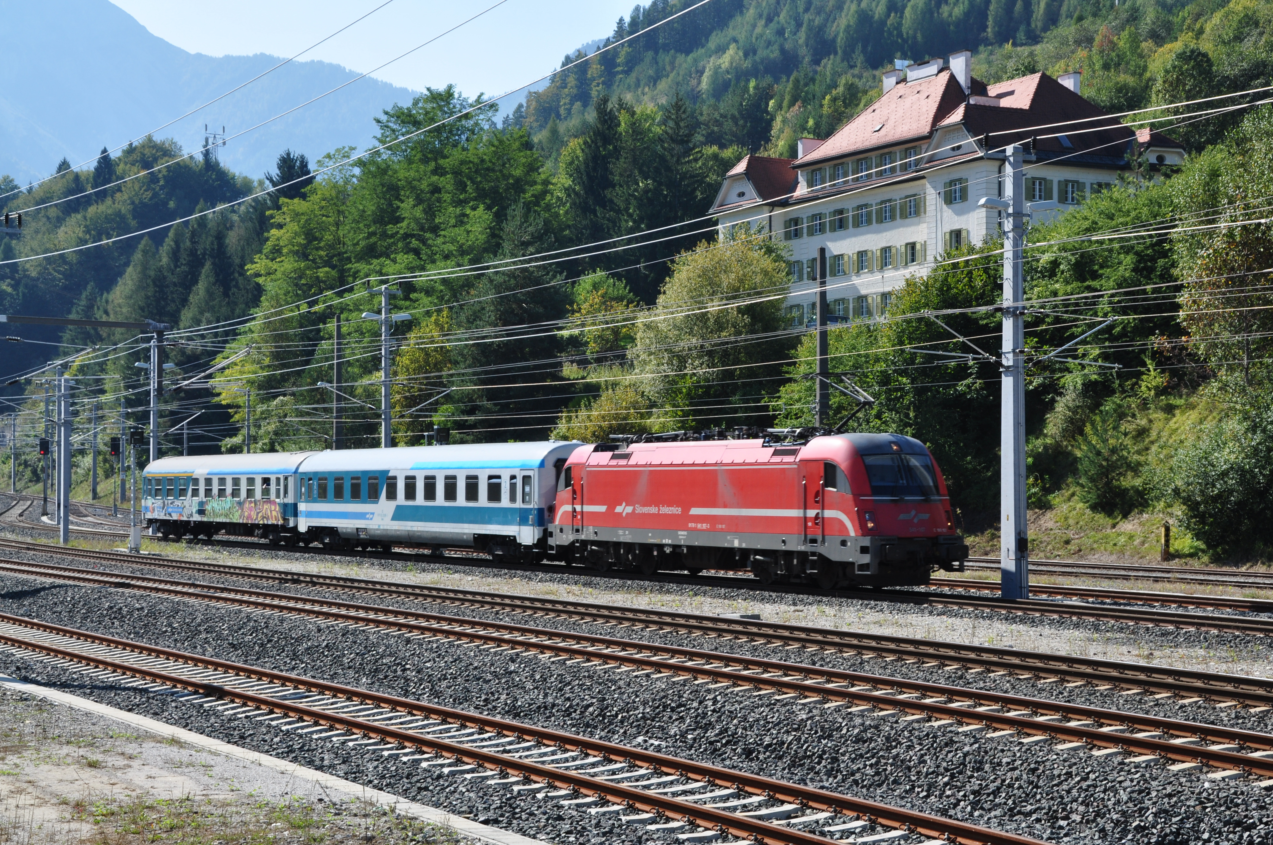 Slovenian train passing through the Rosenbach train station, municipality Saint Jakob in the Rosental, district Villach Land, Carinthia, Austria